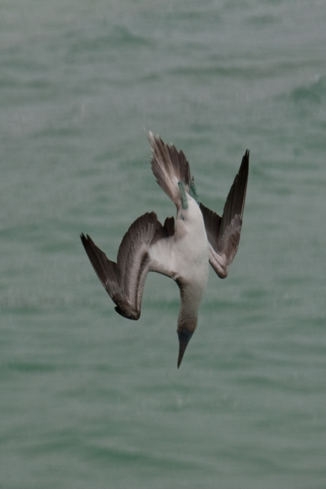 Blue-footed Booby (Sula nebouxii), Galápagos Islands